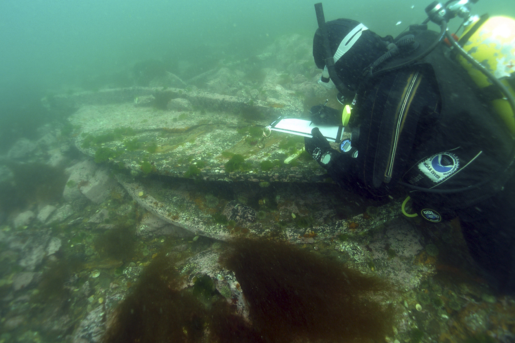 Marine archaeologists from NOAA and the state of Alaska conducted a survey in May of the wreck of the former U.S. Coast Survey Steamer Hassler. During the expedition, supported by the NOAA National Marine Sanctuary Program, NOAA Office of Coast Survey, NOAA Fisheries Service, and NOAA Office of Ocean Exploration, researchers deployed divers and a remotely operated vehicle to document the wreck site. Built in 1871 for the U.S. Coast and Geodetic Survey and named for its first superintendent, Ferdinand Rudolph Hassler, the innovative double-hulled iron steamer arried out a great deal of important hydrographic and oceanographic work. The Hassler was sold in 1895 and transformed into the cargo and passenger steamer Clara Nevada in 1895. It exploded and sank in Alaska’s Lynn Canal during a storm in 1898. Pictured is diver Hans Van Tilburg, NOAA maritime archaeologist, exploring the wreck site.